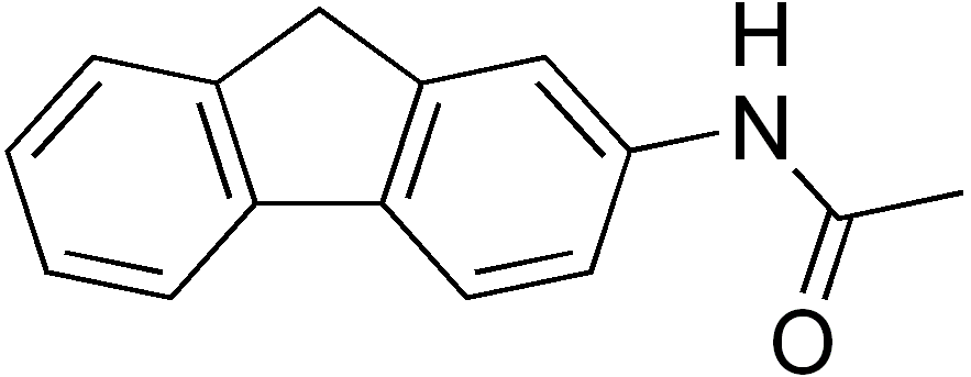 chemical struture of 2-acetylaminofluorene (2-AAF, N-acetyl-2-aminofluorene)